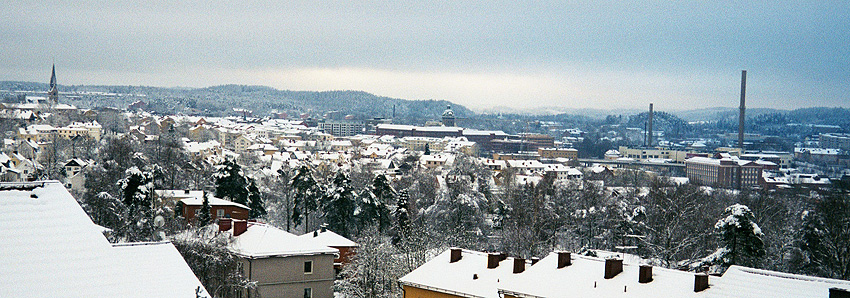 The centre Borås from the north